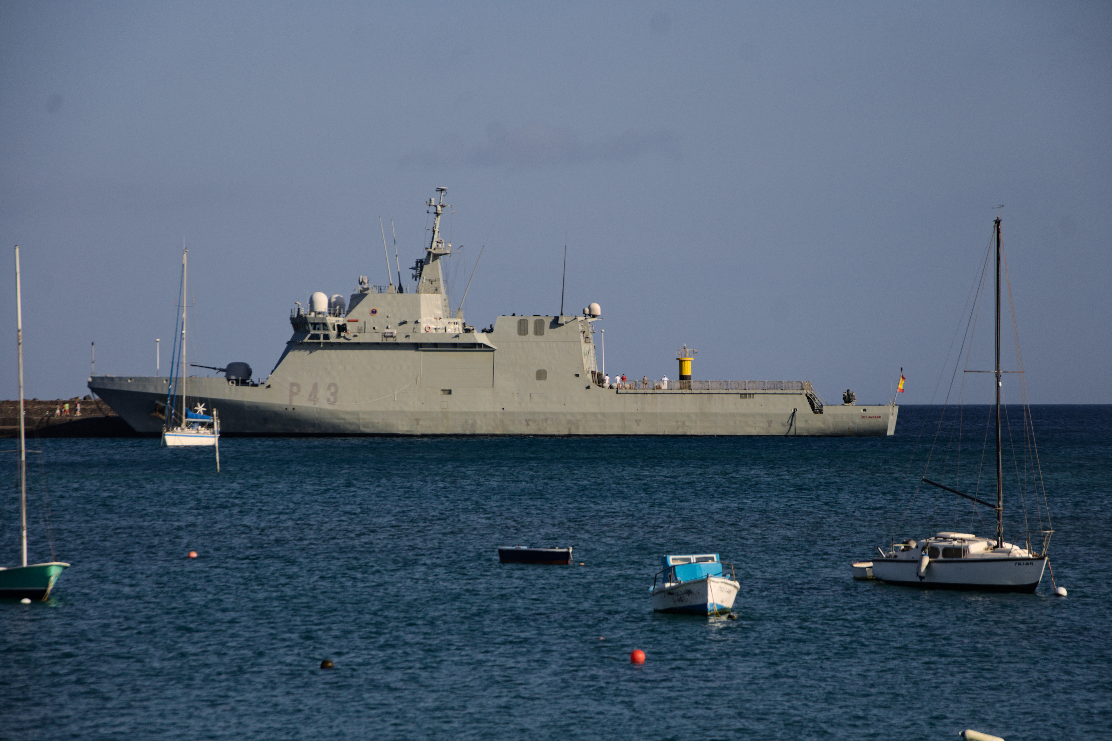 P43 Relampago in Arrecife.